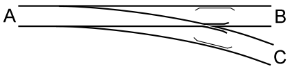 Railroad switch with labelled roads